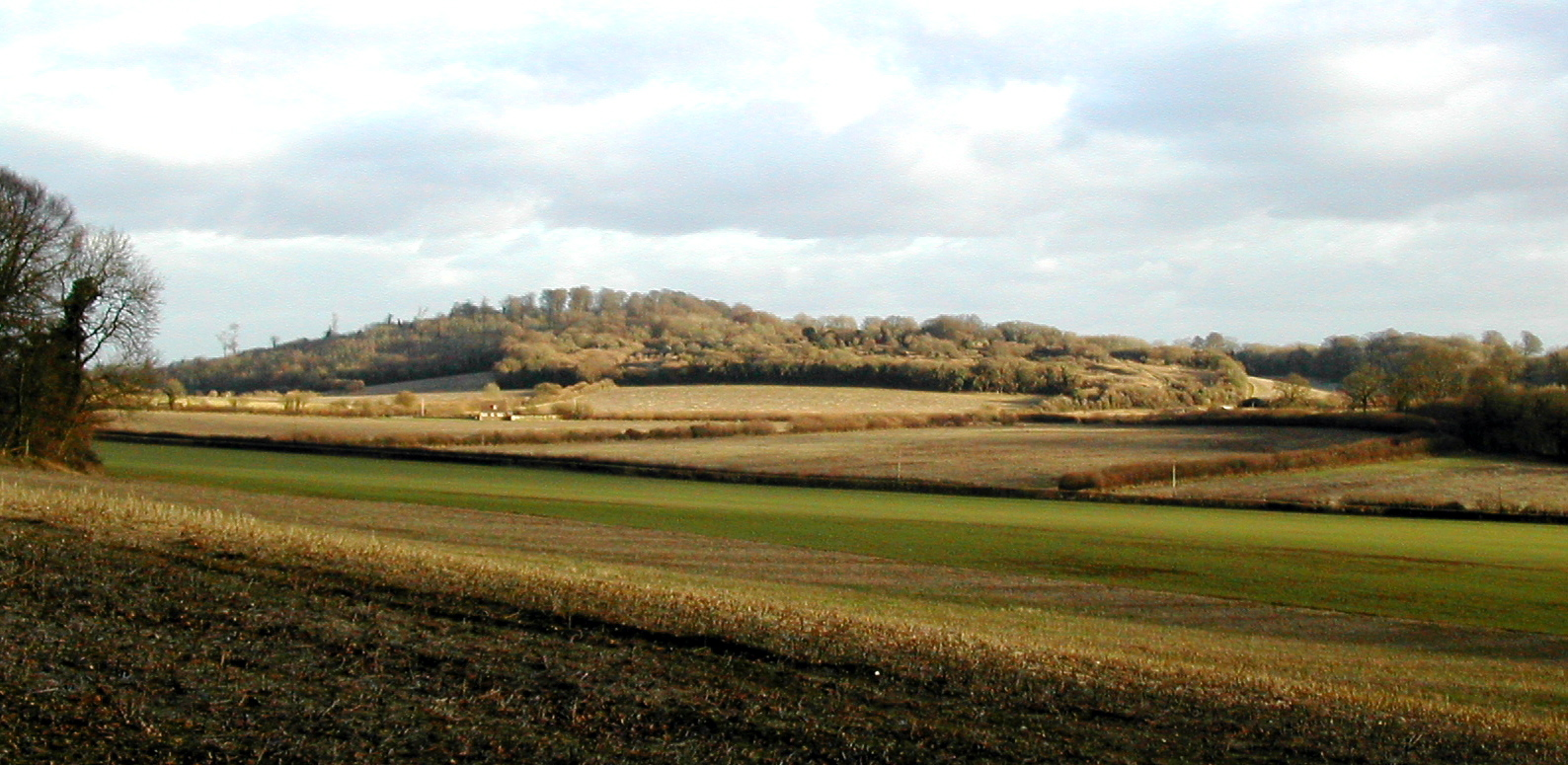 Noar Hill, Hampshire. Photographed by Jonathan Barnes, 26 Jan 2006